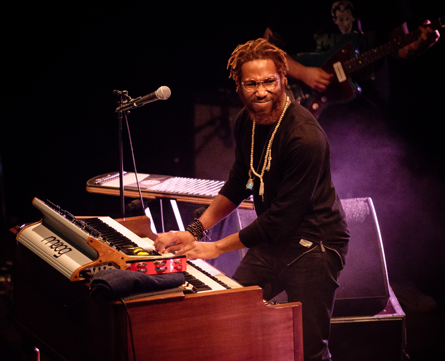 Cory Henry & The Funk Apostles at the stage at Cosmopolite in Soria Moria. The concert took place on 30. October 2017. Lineup: Cory Henry (vocal), Nicholas Semrad (keyboard), Adam Agati (guitar), TaRon Lockett (drums), Sharay Reed (bass guitar), Denise Stoudmire (backing vocal) and Tiffany Stevenson (backing vocal).